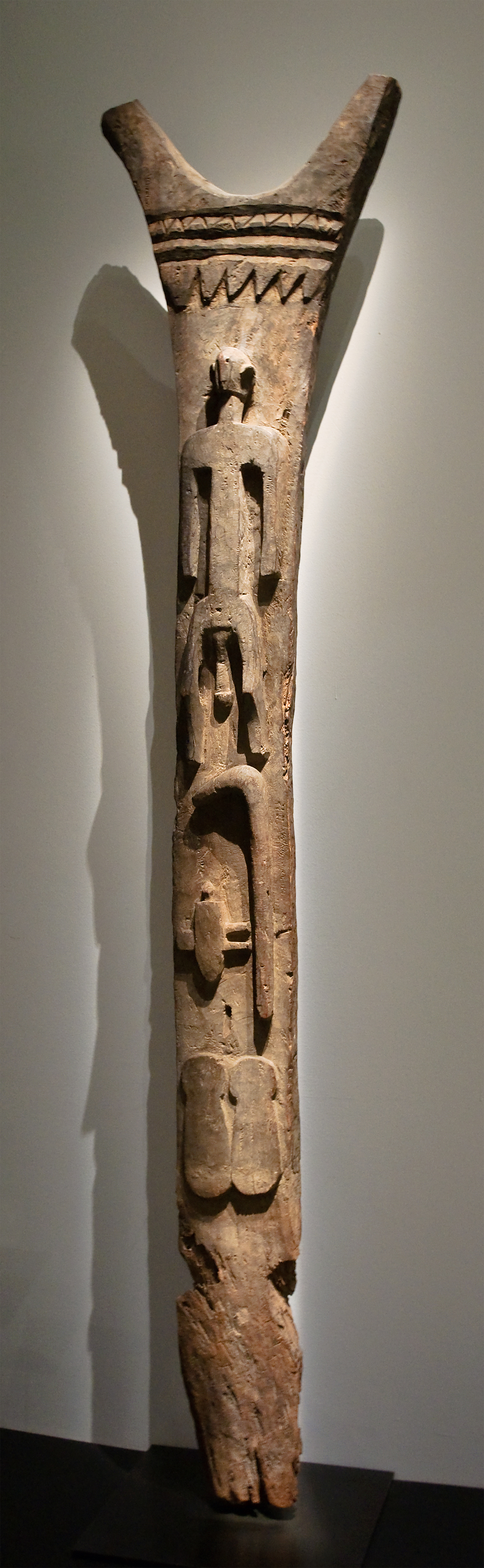 Dogon hall pillar bearing a male figure. Wood. Provenance: Bankass - end of 18th century - 19th century. France, private collection. Presented during the Dogon exhibition - Musée du Quai Branly, Paris (April 5 - July 24, 2011)